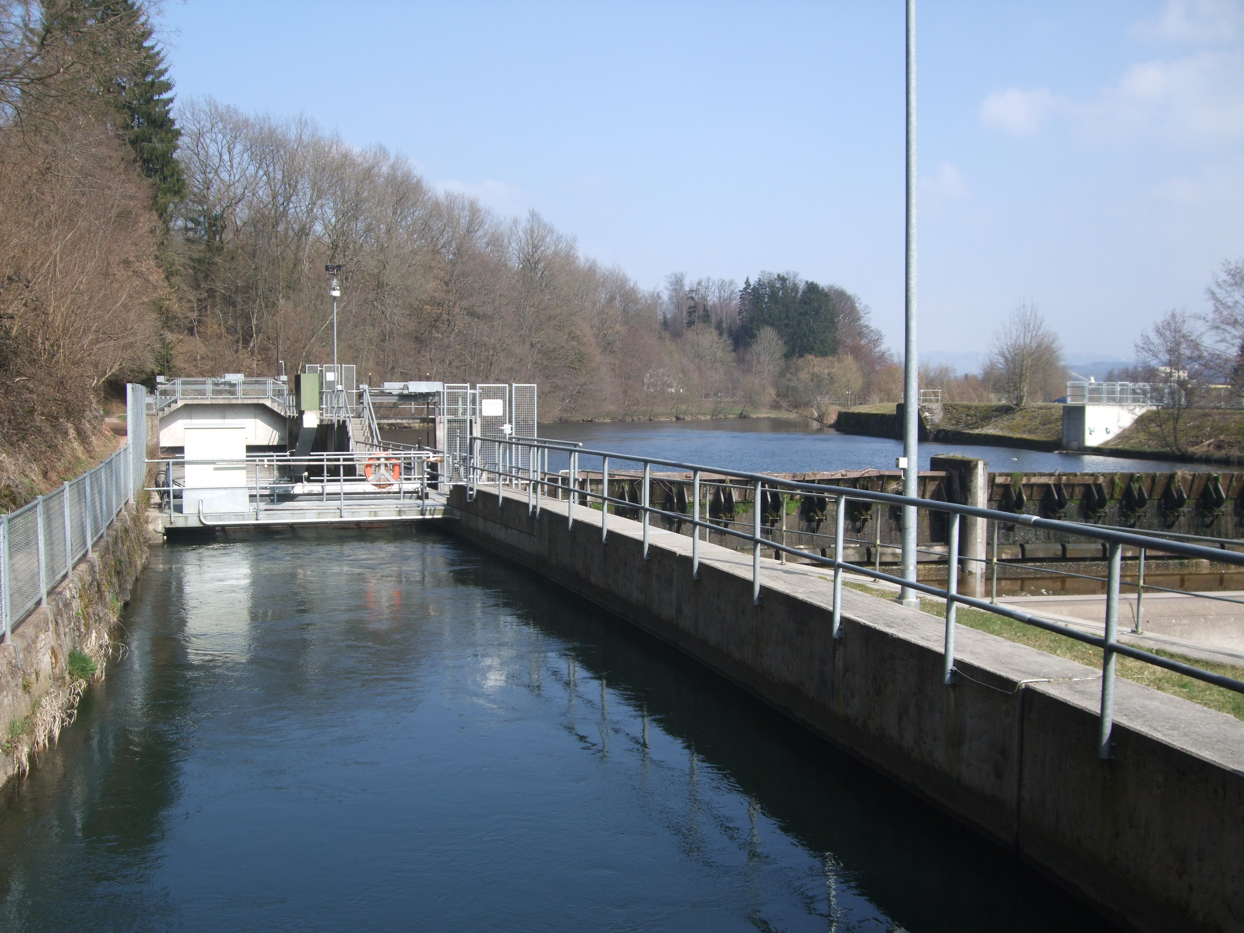 Canal alongside the Wiese between Steinen and Maulburg, which is used for electricity generation.